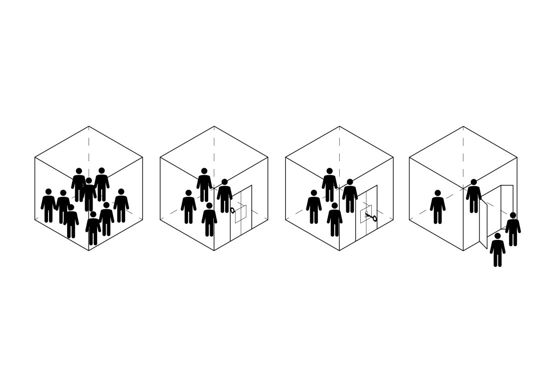 סוגי הגטאות משמאל לימין: 1. גטו ללא מוצא: המקביל ל"גטו סגור" מתקופת השואה. מקום מגודר מבחוץ, ותנאי המחייה בו צפופים וקשים. 2. גטו סגור מבפנים: קהילה אשר מרצון מפרידה בין עצמה לבין המרחב החיצוני לה. דוגמת מאה שערים. 3. גטו סגור מבחוץ: קבוצות אוכלוסייה אשר "נח" לחברה שכתוצאה חברתית נידונו לחיות באזור מוגדר. דוגמא לכך הם גטאות האפרו-אמריקאים בארצות הברית, וכן דרום תל אביב עם אוכלוסיית מהגרי העבודה והפליטים. 4. גטו פתוח למחצה: בשונה מ"גטו פתוח" אשר מוכר לנו מתקופת השואה ככזה המאפשר יציאה ממנו למטרות עבודה, גטו כזה מאפשר לאנשים מקהילה מסוימת לדור עם בני קהילתם ולחיות לפי אורחות חייהם, אך ללא הגבלה מהאפשרויות המרחביות העוטפות אותם.